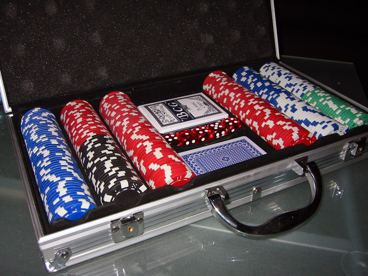 Poker Chips (300 pieces, 2 decks of cards)